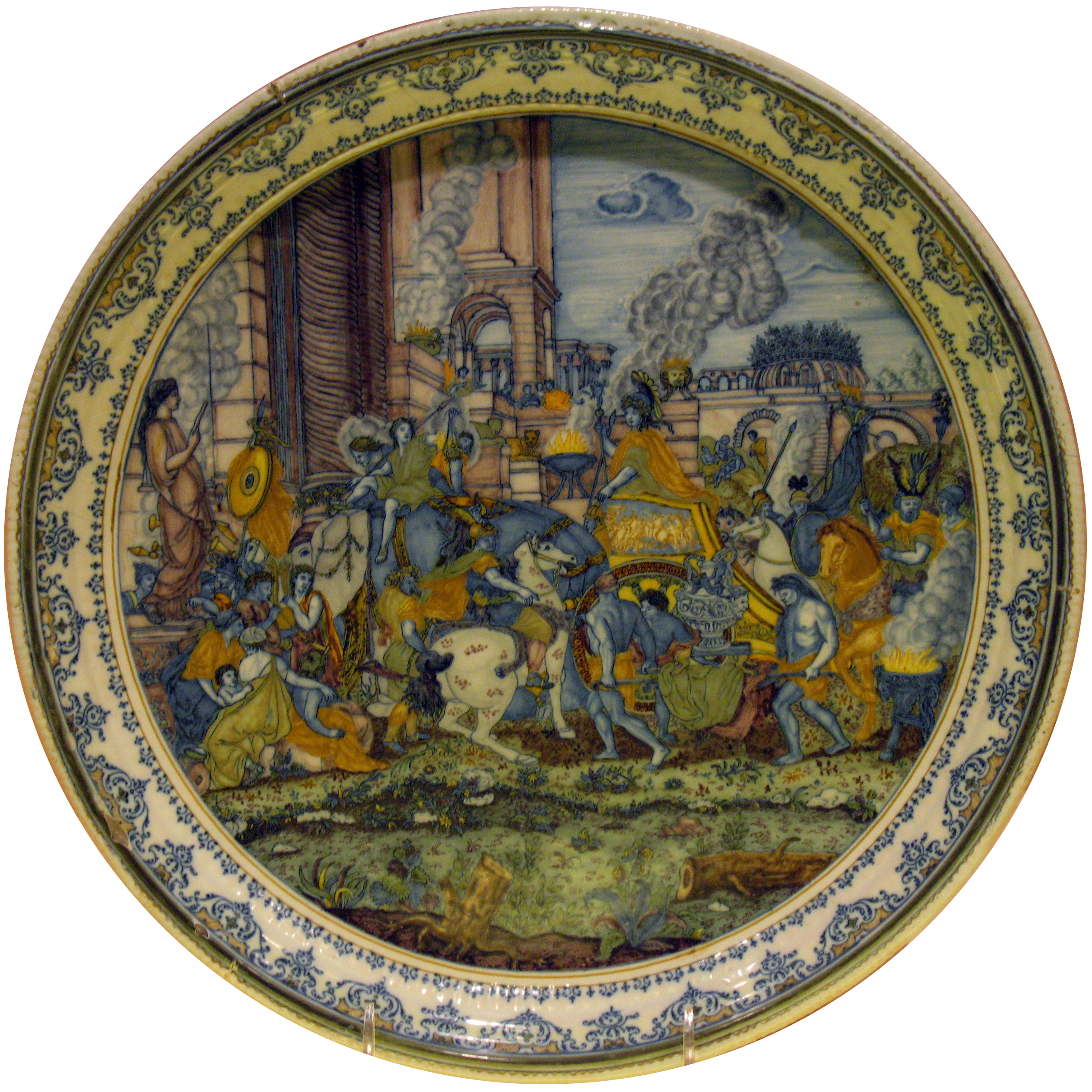 Plate depicting the Triumphal Entry of Alexander the Great into Babylon